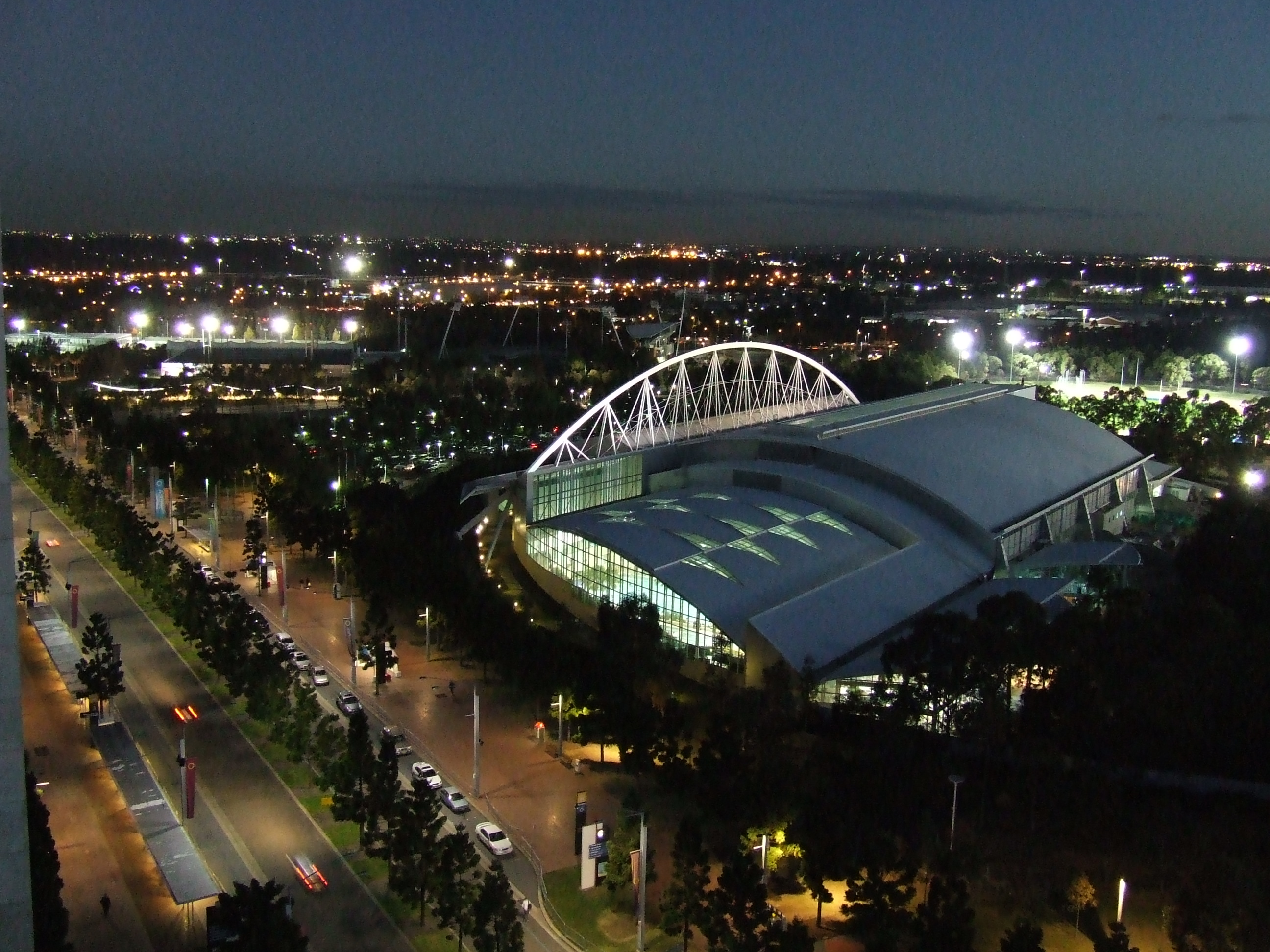 Night time at the Sydney Olympic Park Aquatic Centre